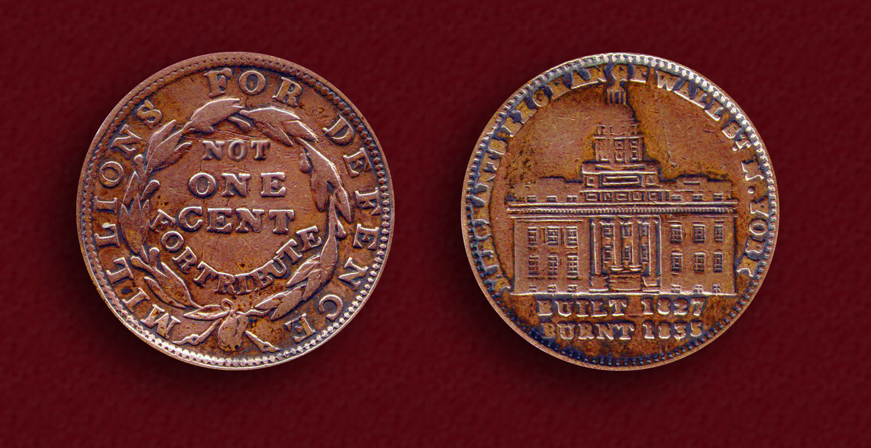 1837 Merchant's Exchange Hard Times Token. Copper, 28mm, 10.10gm, 6h HT#293 Obverse: MERCHANTS EXCHANGE WALL ST N. YORK. Facing view of building; below, BUILT 1827 / BURNT 1835. Reverse: MILLIONS FOR DEFENCE. Wreath containing NOT / ONE / CENT / FOR TRIBUTE. Captioned As { }